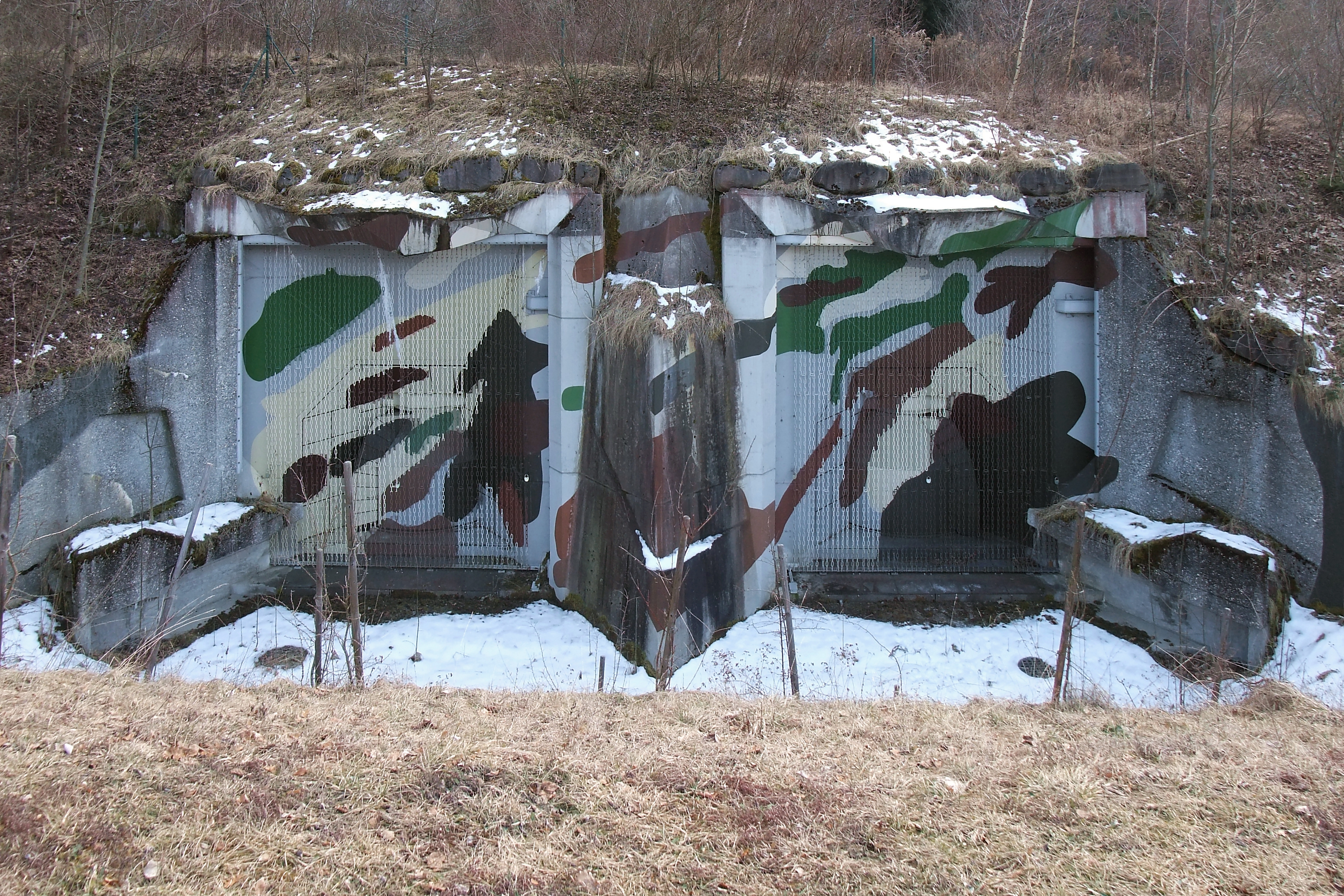 Position with two fortress guns 93 L52 which belong to a fire-unit with four guns. Each of the four guns of a unit has a magazine of five projectiles. These 20 shots are fired in 25 seconds as one fire-blow. To protect and camouflage, the positions are embedded in hollows. The guns shoot out of a pit and can only be seen from close. But such pictures are something misleading because the visible part is over 5 m high, and the pit has an accordingly depth. The practical range is 36 km. The locations are classified and must remain secret. Rhine Valley, Switzerland, Feb 14, 2011. Update: The guns were shut down in fall 2011, but not declassified.